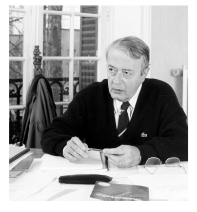 The founderer of geostatistics, Georges Matheron, in 1998